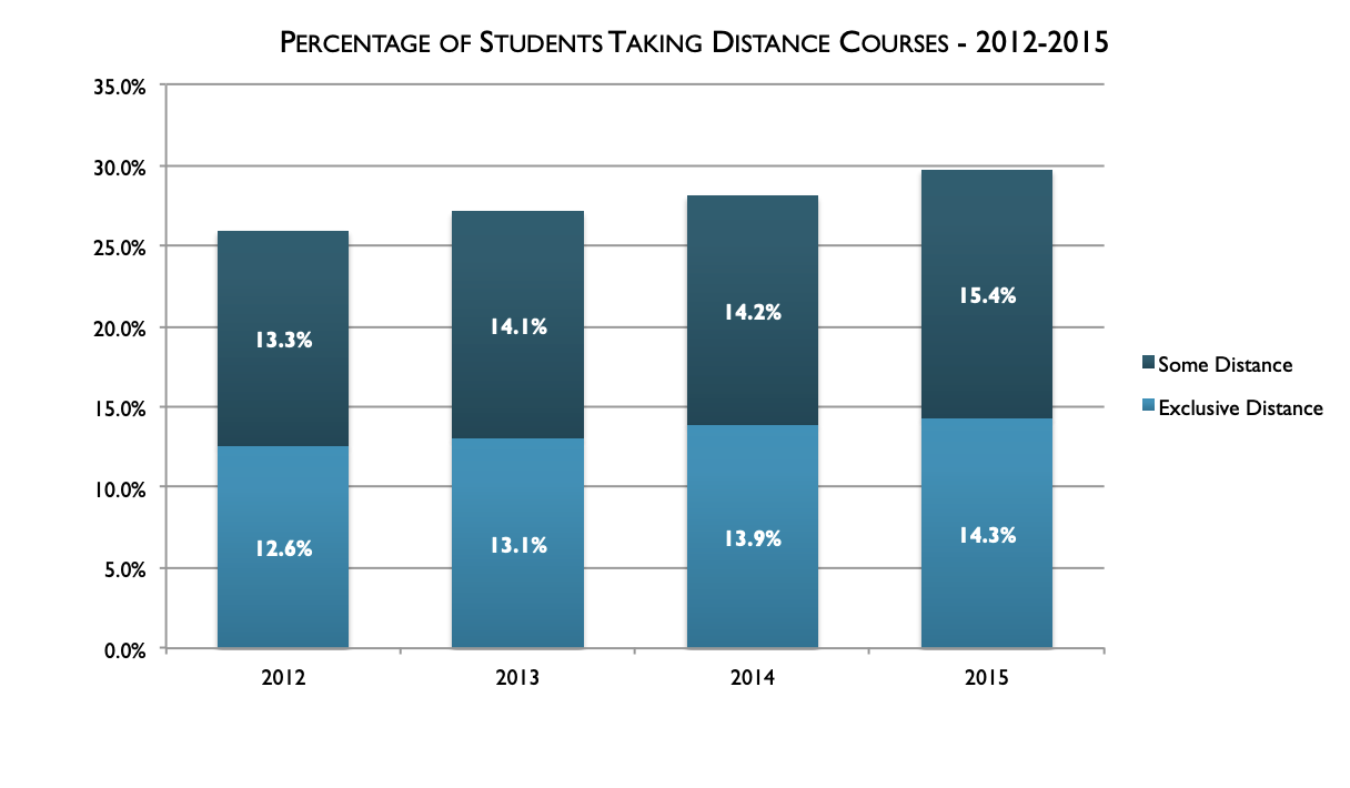 Of the percentage of students who took part in online courses during the years 2012-2015, this graph shows the percentage of students taking online courses exclusively or some online and some on a campus.